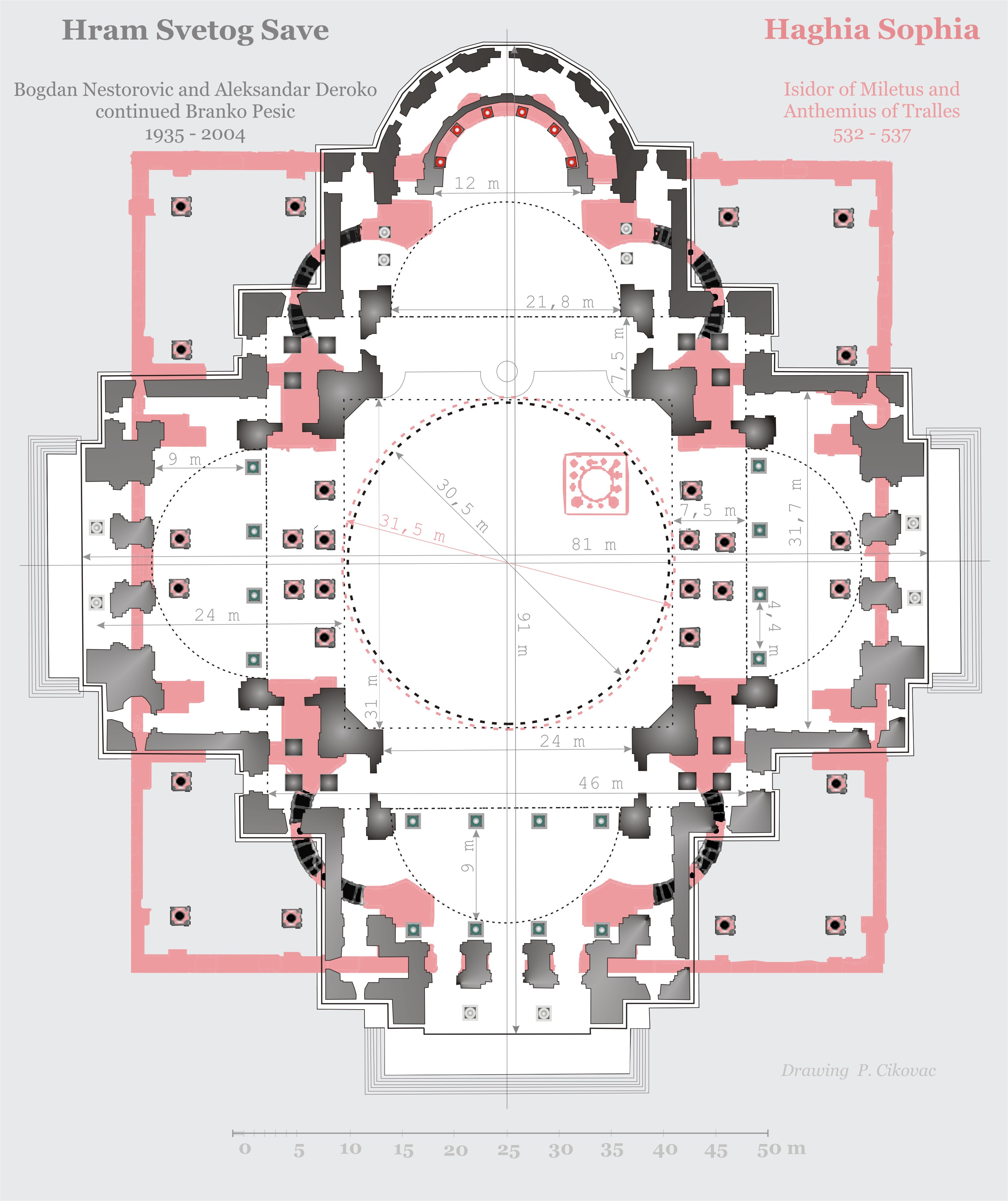 Hram Svetog Save und Hagia Sophia Überlagerunng der Pläne leg P.Cikovac